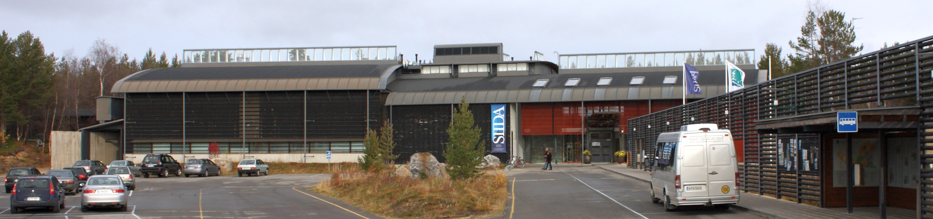 The facade of Siida museum in Inari, Finland.